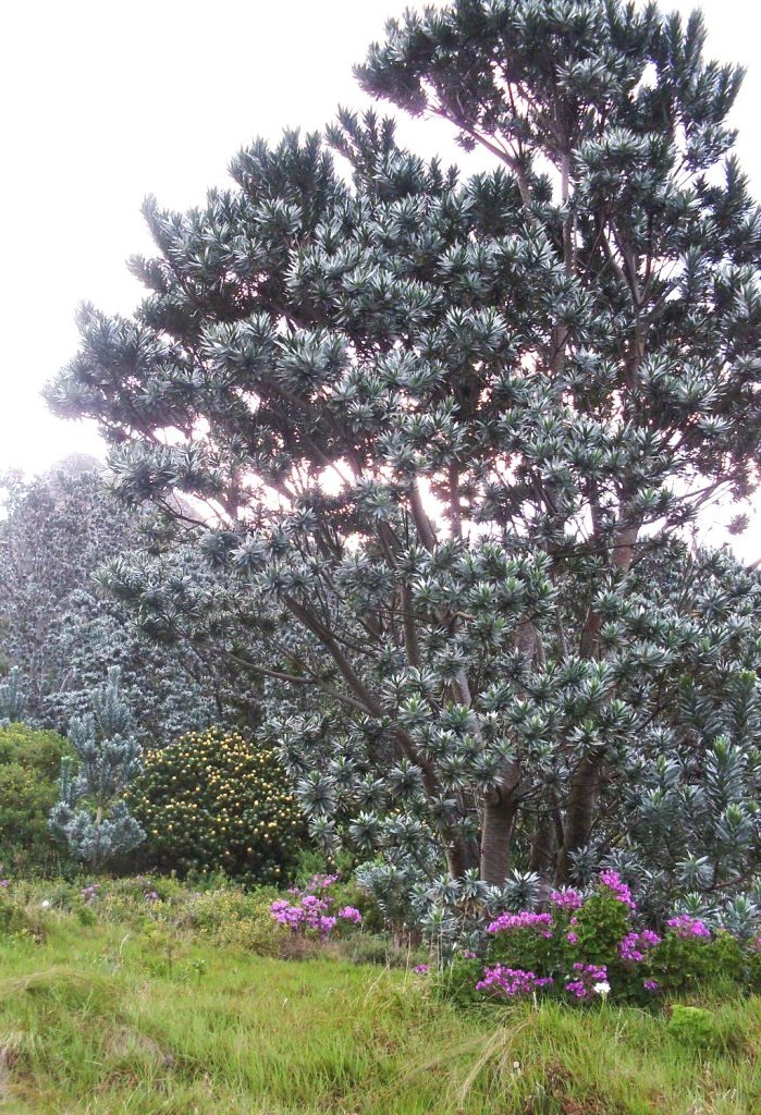 Leucadendron argenteum. Cape Town Silvertree. Endemic proteoid of Table Mountain.